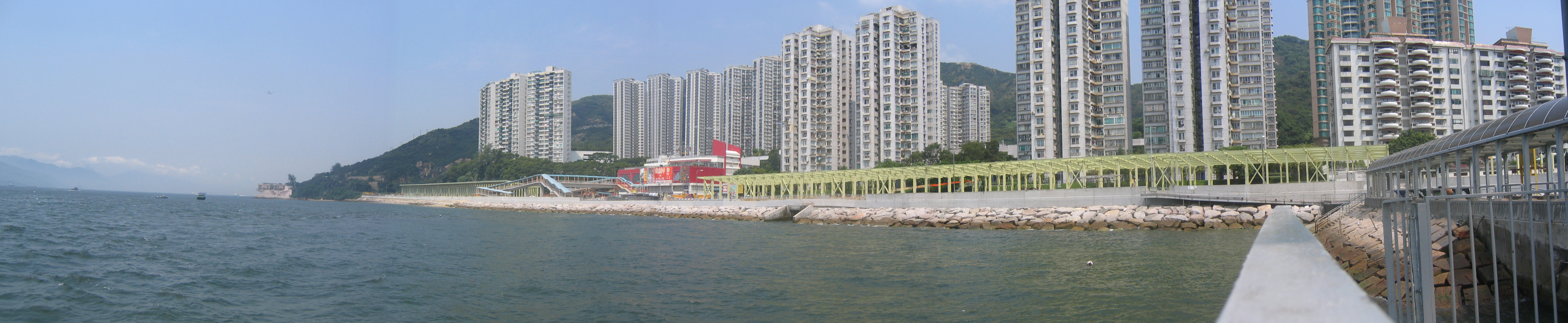 A panoramic photogrpah of Tsing Lung Tau. It was taken at Tsing Lung Tau Ferry Pier by myself. From Image:TsingLungTau.jpg